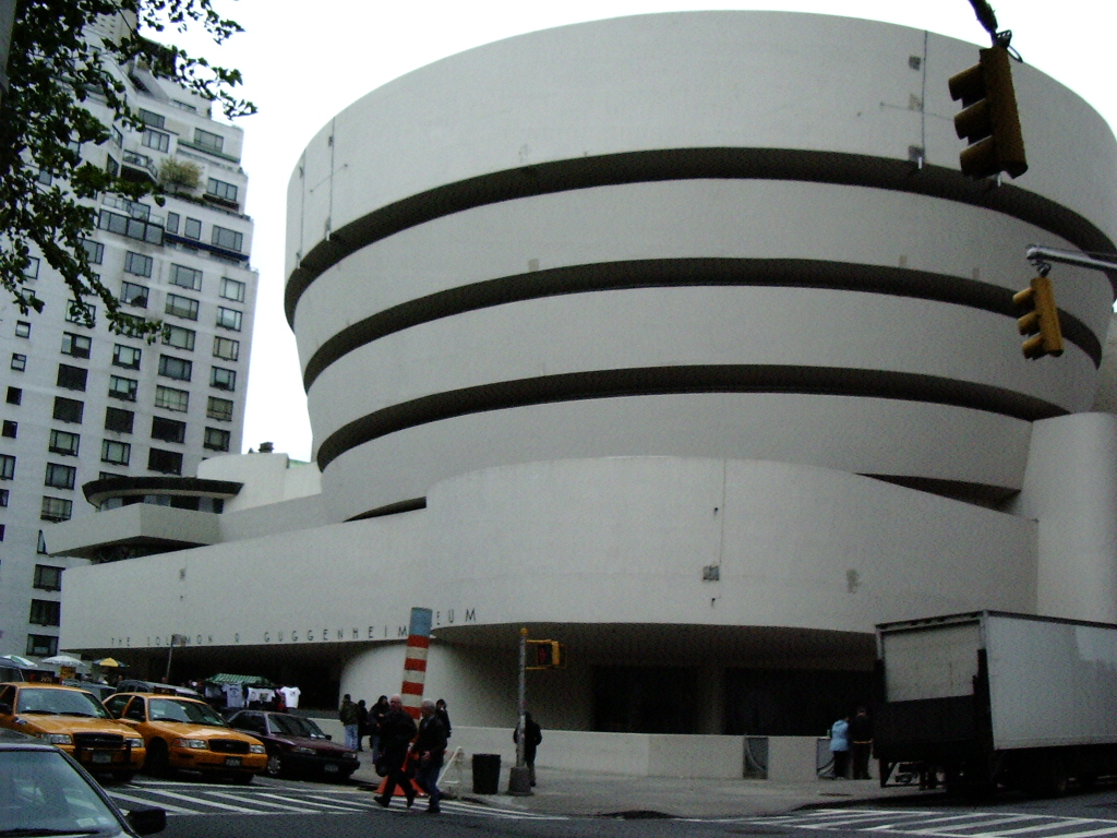 There's a lot of Kandinsky's inside...